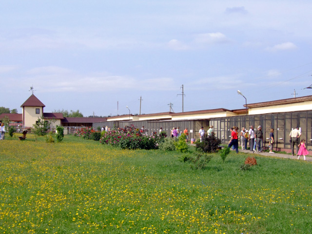 Park of Birds "Vorob'i"